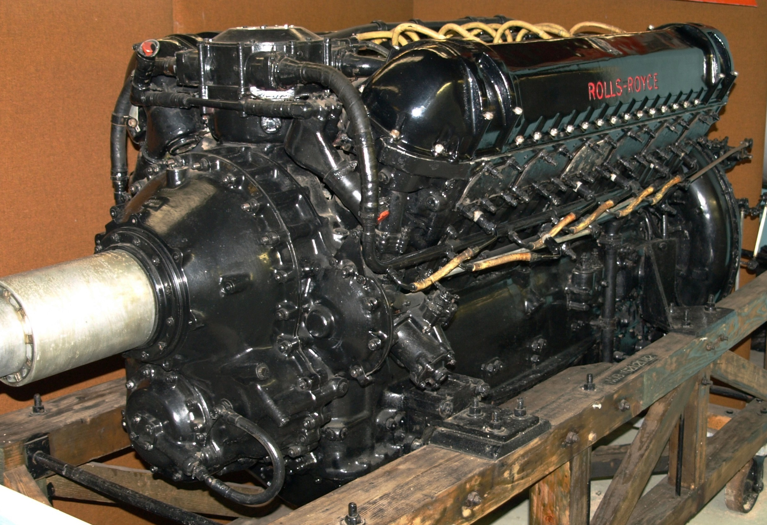 Rolls-Royce Griffon aero engine (Mk 57/58?) at the Midland Air Museum